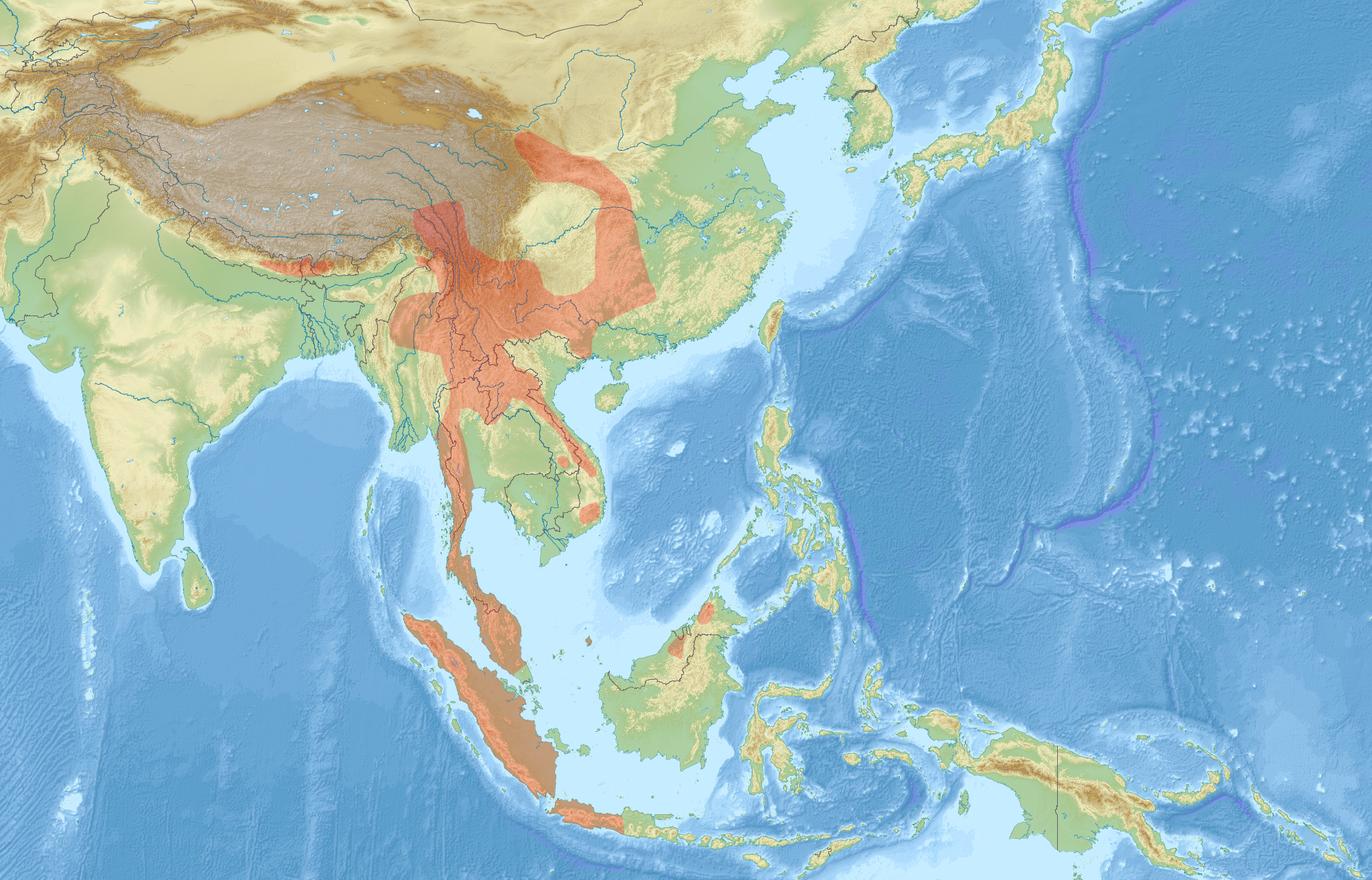 Distribution of Petaurista elegans Projection: Equirectangular projection, strechted by 112.0%. Geographic limits of the map: N: 44.0° N S: -11.0° N W: 67.0° E E: 163.0° E GMT projection: -JX33.86666666666667cd/21.73111111111111cd GMT region: -R67.0/-11.0/163.0/44.0r GMT region for grdcut: -R67.0/-11.0/163.0/44.0r Relief: SRTM30plus. Made with Natural Earth. Free vector and raster map data @ .